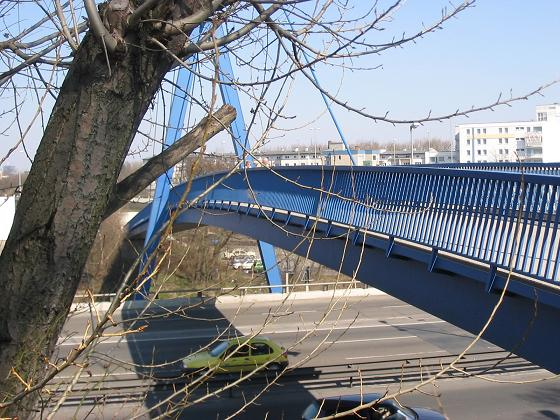 The brigde Hoher Bogen over the motorway A100 (city circle) near the Hubertussee ("Hubertus lake") in Berlin.